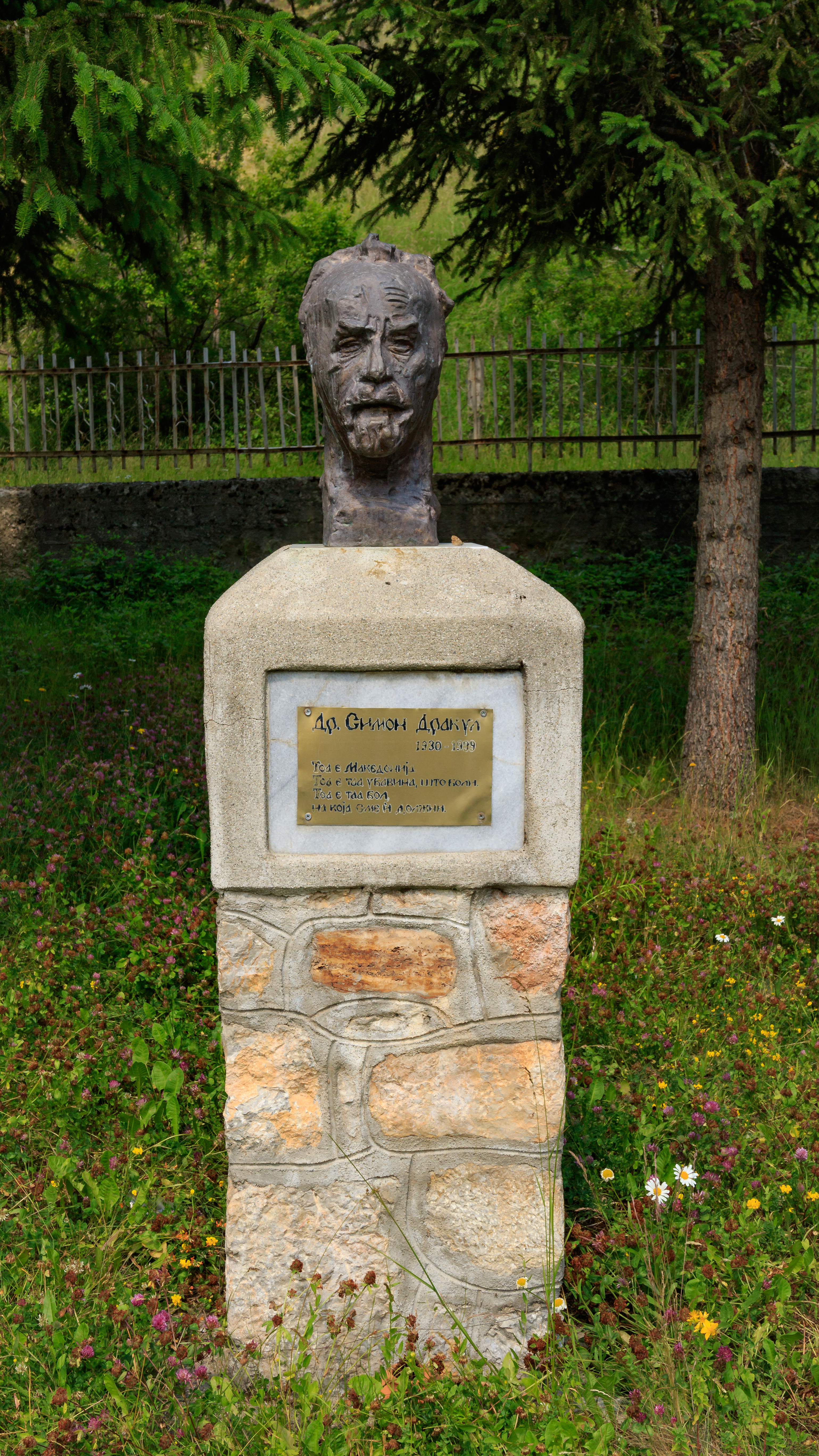 Bust of Simon Drakul in the village Lazaropole